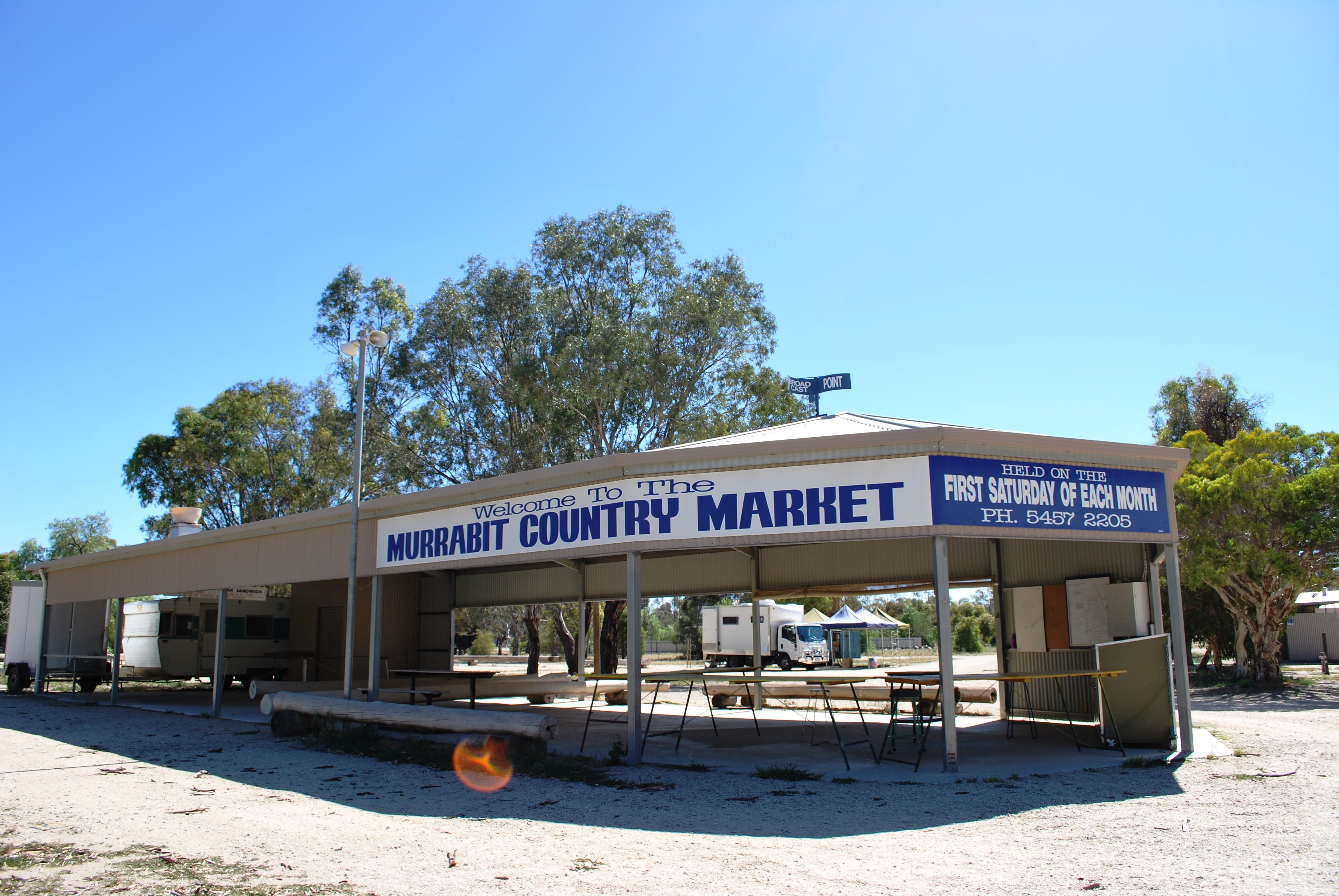 Site of the Country market at Murrabit, Victoria